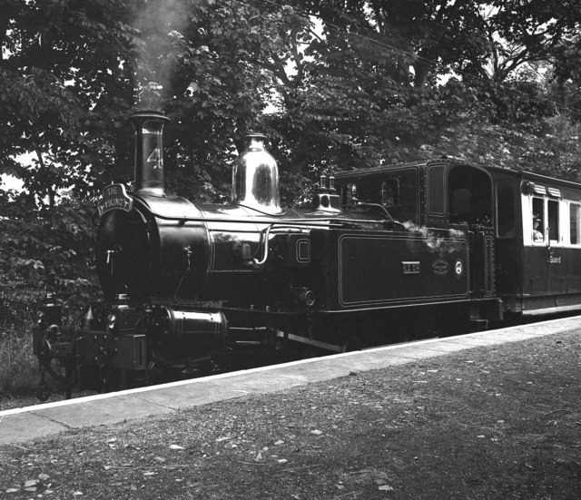 'Loch' at Port St. Mary